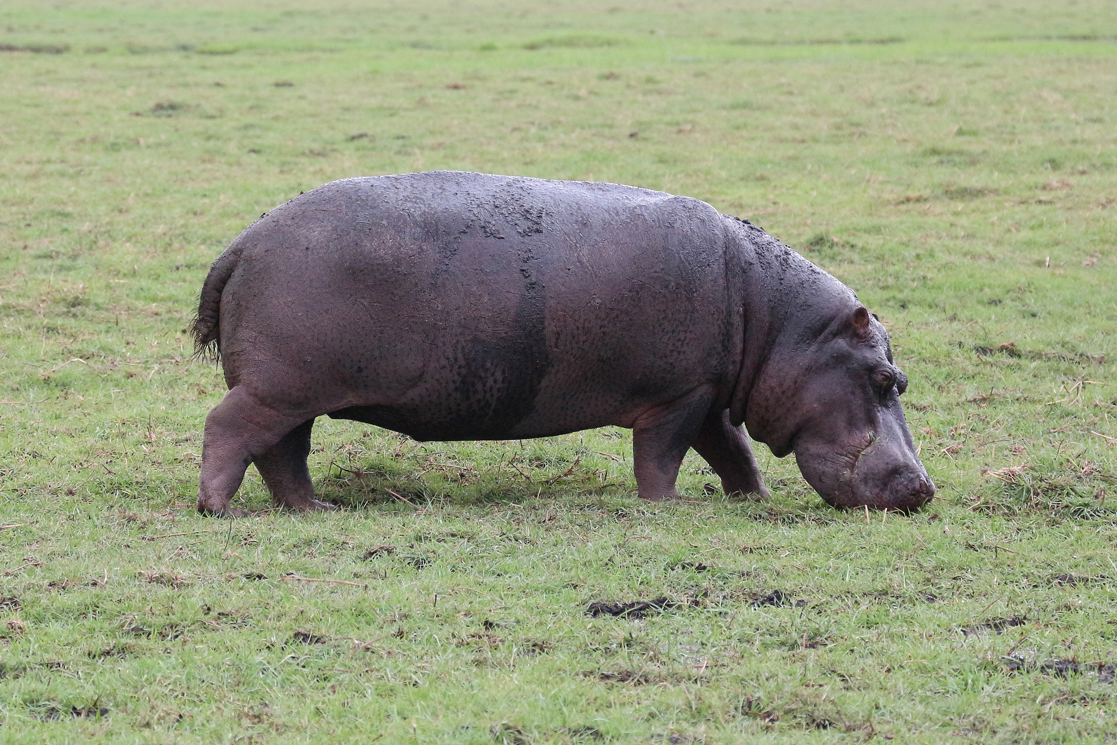 Hippopotamus (Hippopotamus amphibius) in Chobe National Park, Botswana